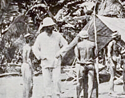 Cropped screenshot of a series of pictures in article "Travel Pictures for Truart" published in Motion Picture News, August 27, 1921, p. 1091; image shows American explorer and filmmaker Frederick Burlingham Interacting with Dayak natives in Borneo, 1920.